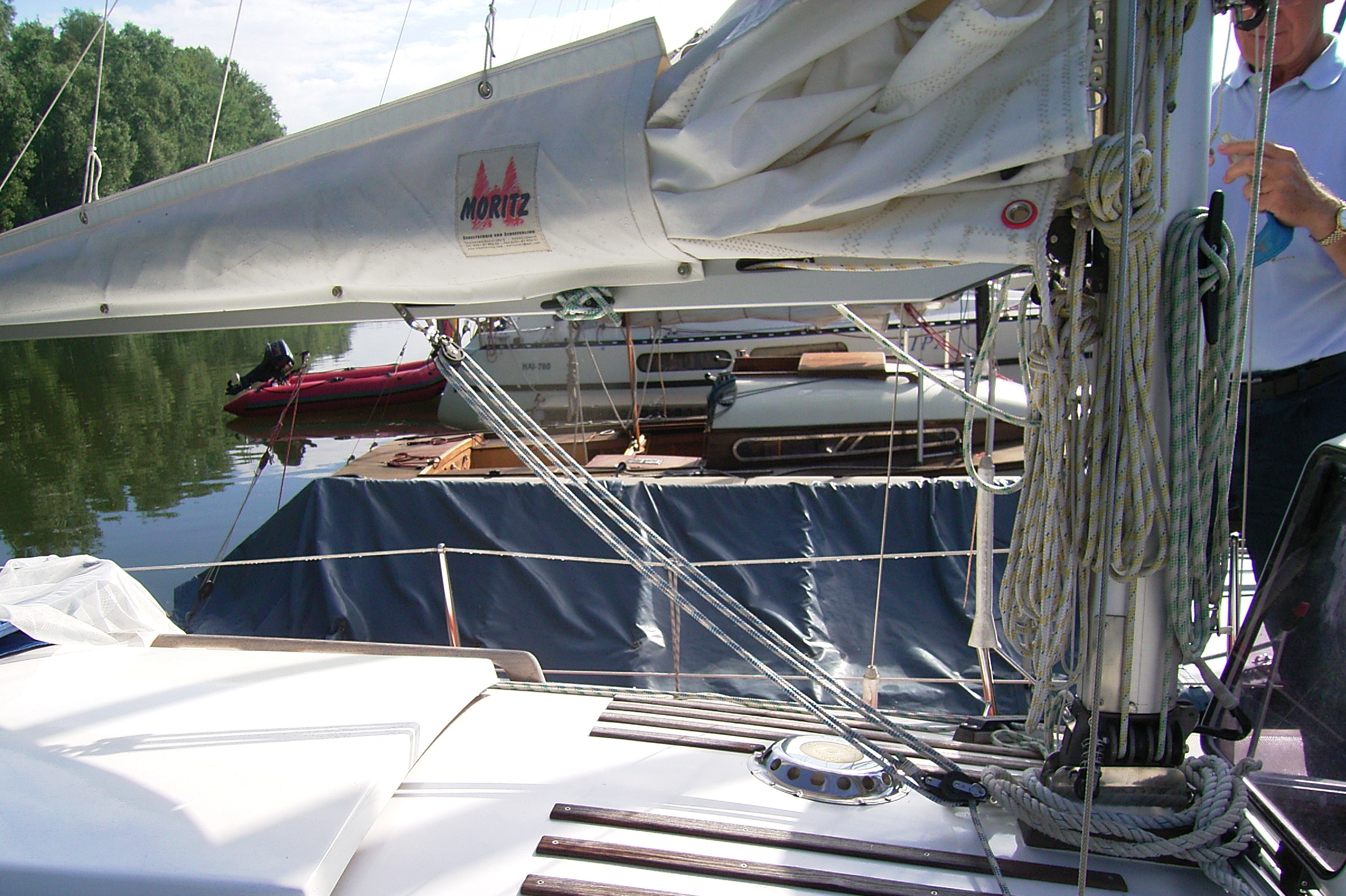 A simple Kicker/boom vang